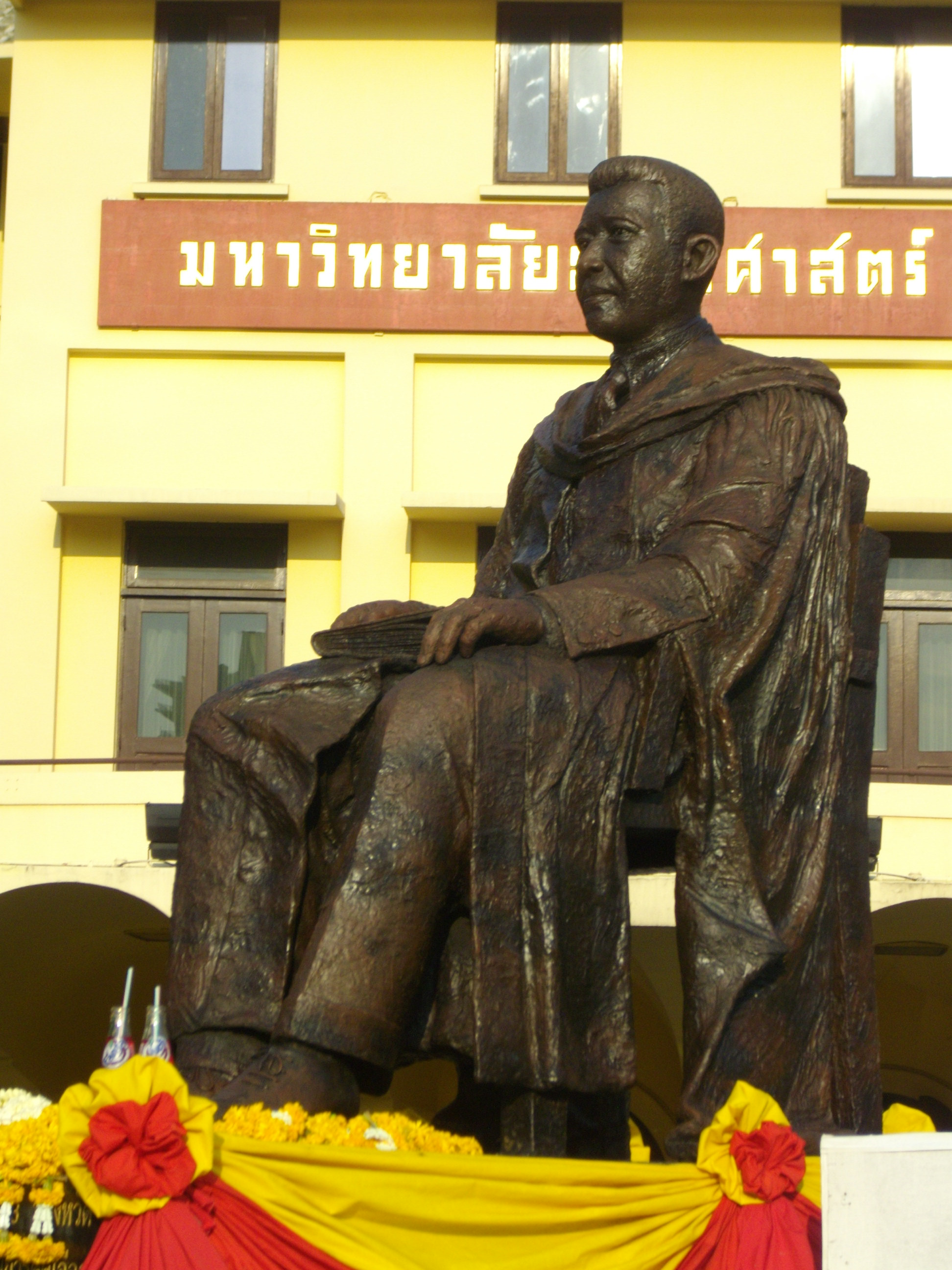 Pridi Phanomyong monument at Thammasat University, Bangkok, Thailand